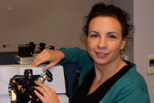 Prof Claire Eyers working in the lab